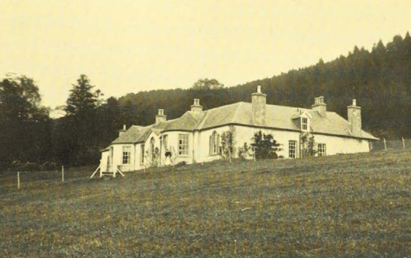 Depicted place: Boleskine House